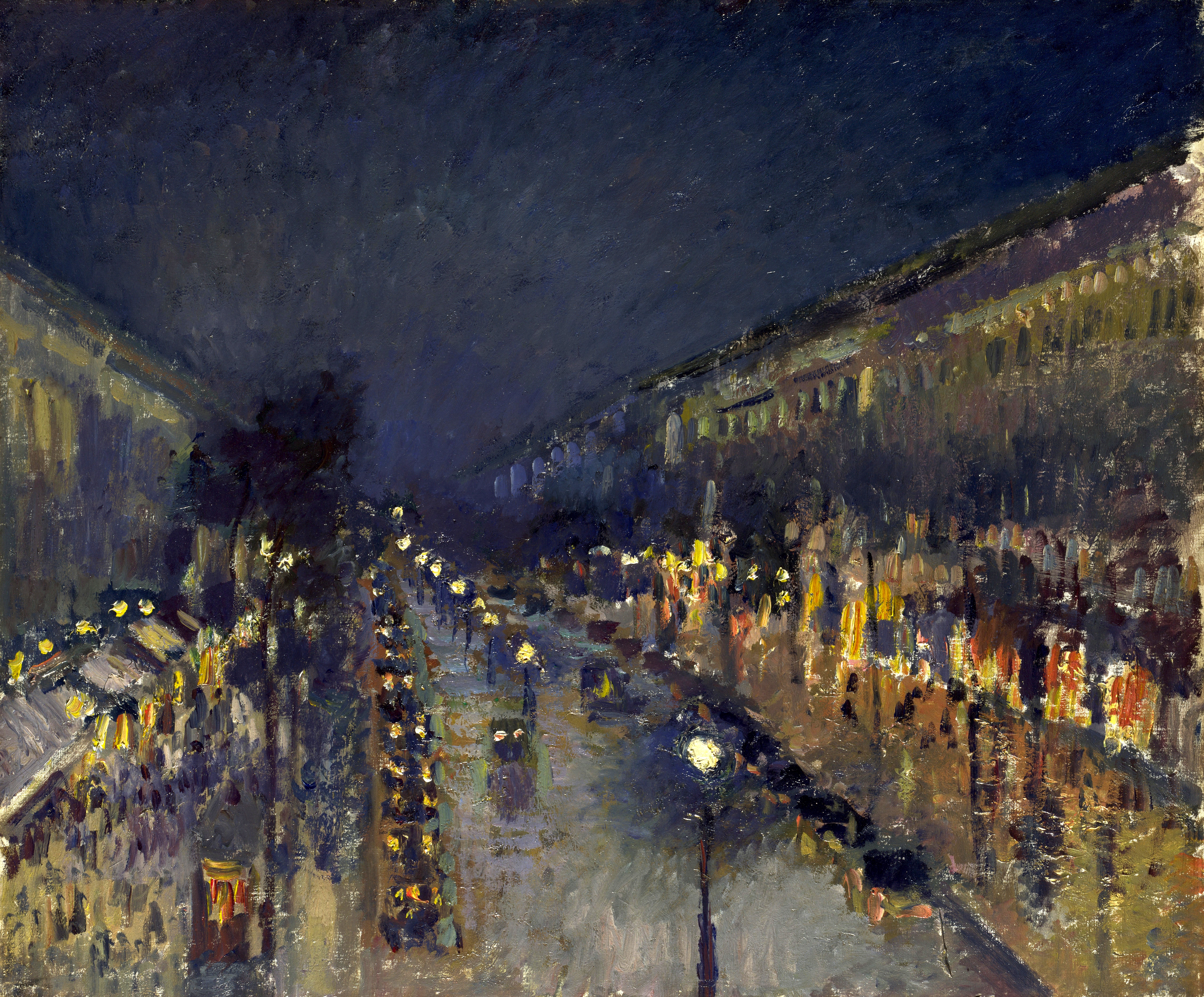 Towards the end of his life Pissarro increasingly turned to the representation of town scenes in Paris, Rouen, Dieppe, Le Havre and London, mainly painted from the windows of hotels and apartments. In February 1897 he took a room in Paris at the Hôtel de Russie on the corner of the Boulevard des Italiens and the Rue Drouot, and produced a series of paintings of the Boulevard Montmartre at different times of the day. Pissarro may have been influenced by the series of paintings on which Monet was engaged at this time, and by the earlier urban scenes of Manet. This painting is the only night scene from this series, and is a masterful rendition of the play of lights on dark and wet streets. Pissarro neither signed nor exhibited it during his lifetime.